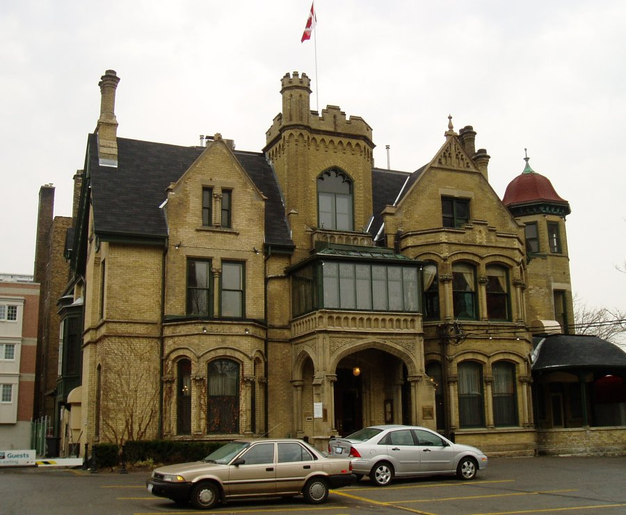 Euclid Hall (The Keg Mansion) on Jarvis Street, Toronto, Canada. Taken by SimonP in April 2005